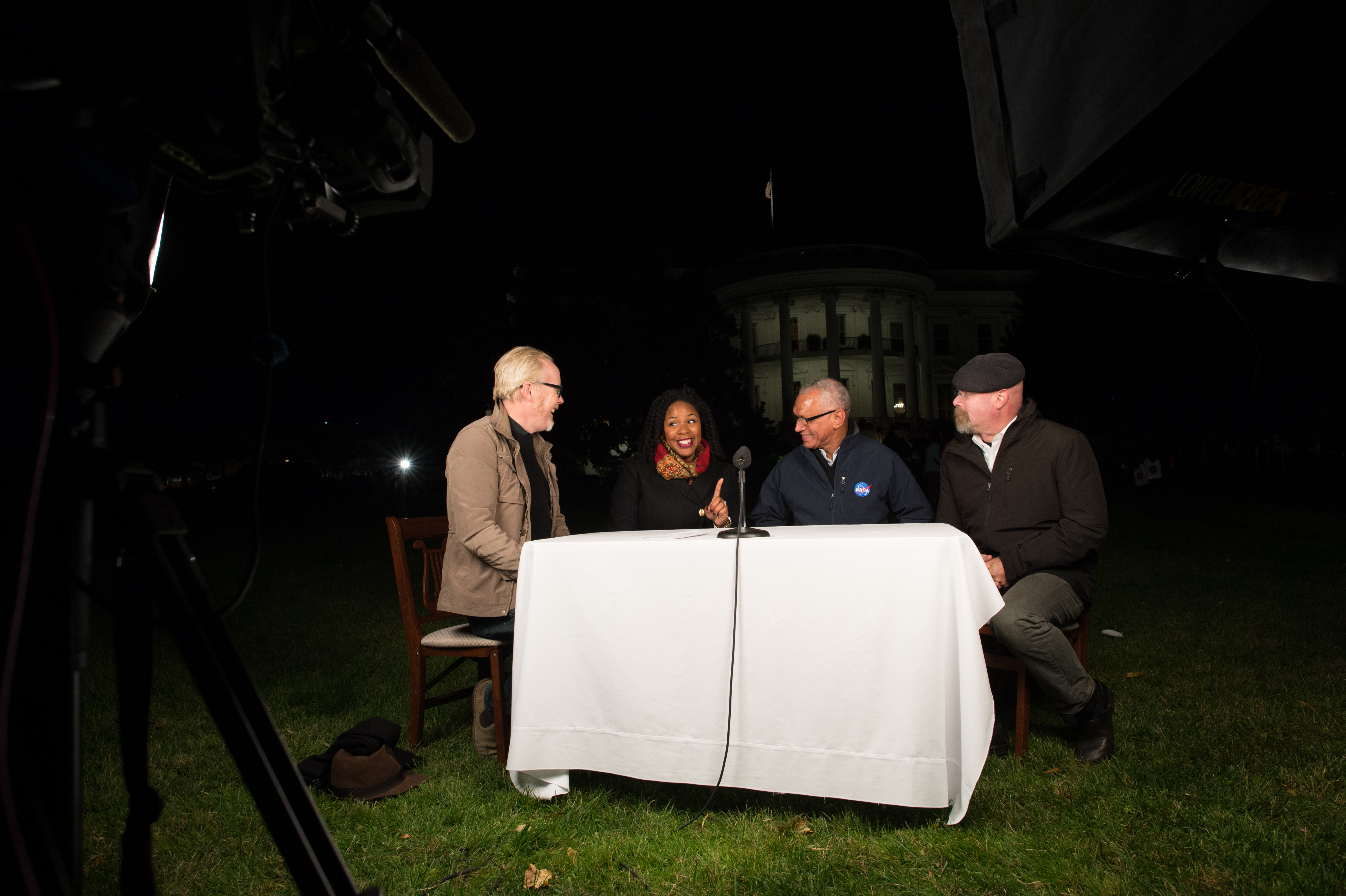 Mythbusters hosts Adam Savage, left, and Jamie Hyneman, right, astrophysicist Jedidah Isler, second from left, and NASA Administrator Charles Bolden, second from right, during the second White House Astronomy Night on Monday, Oct. 19, 2015. The second White House Astronomy Night brought together students, teachers, scientists, and NASA astronauts for a night of stargazing and space-related educational activities to promote the importance of science, technology, engineering, and math (STEM) education. Photo Credit: (NASA/Joel Kowsky)